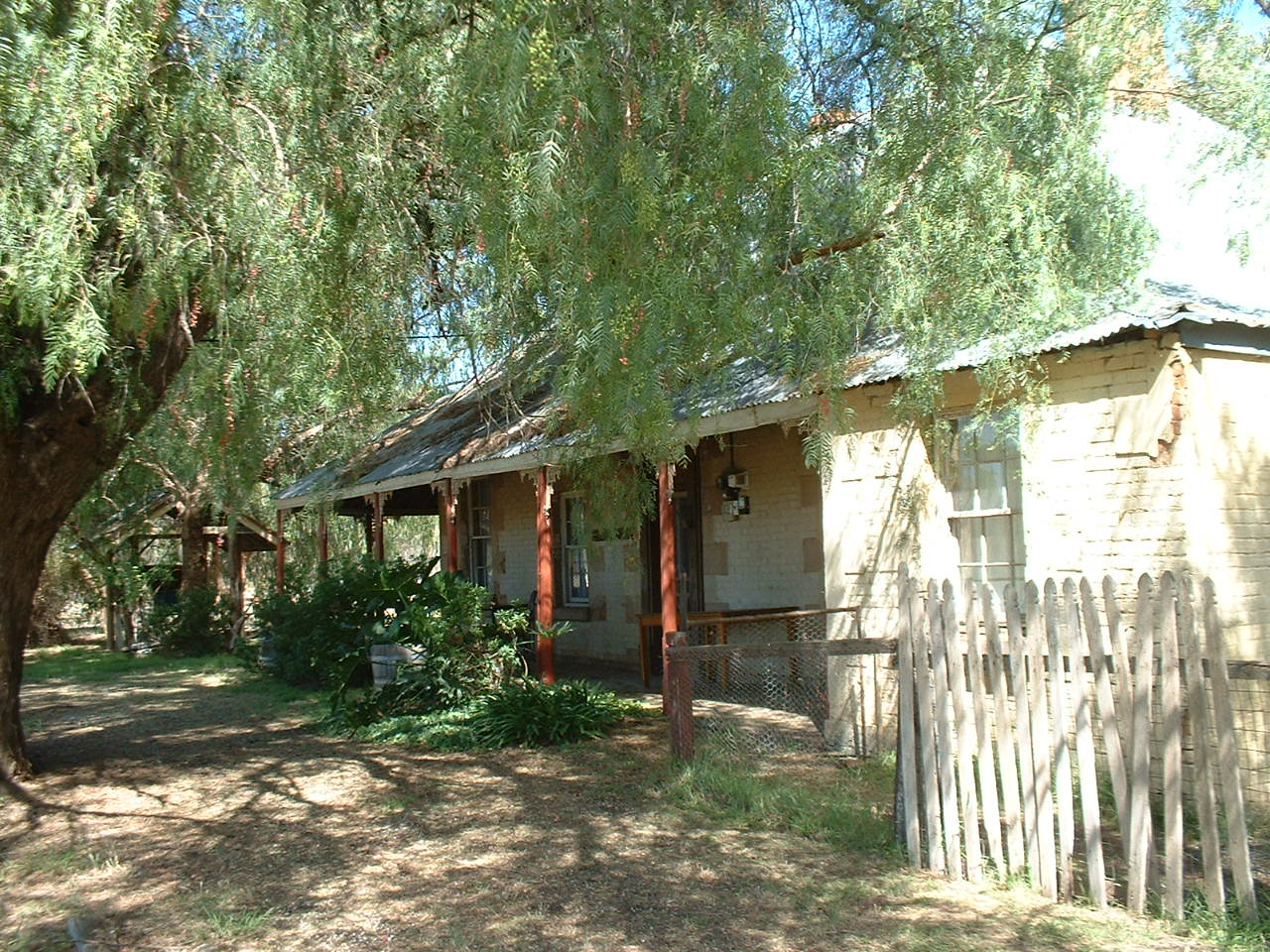 The old Royal Mail Hotel at Avenel, Victoria, built in 1847. Ned Kelly, later famous as a bushranger, saved the owners son from drowning in the creek near the hotel Hotel was built by James Hilet (1817-1887). Royal Mail Hotel in Avenel has a 'Statement of Significance'. Victorian Heritage. VHRH0335. First owners were James Hilet & family. First operated as a store, till he obtained a publicans licence in 1857. He was publican till 1860 when Frederick Ruffy took over.The licence was then transferred to Esau Shelton 1862-63.Ned Kelly aged 11 yrs old saved their son Richard Shelton from drowning.